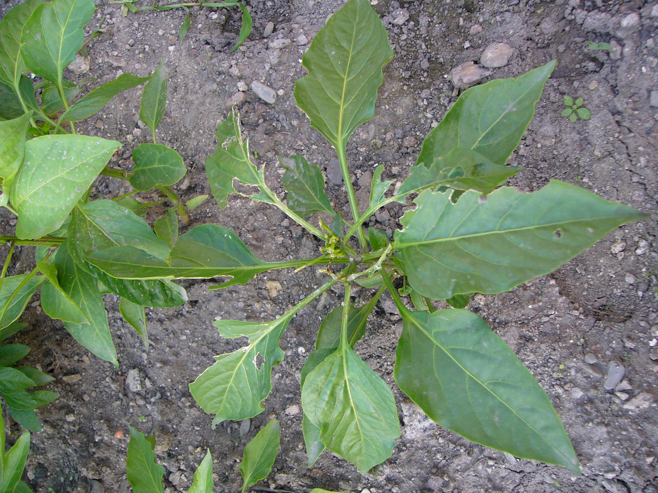 Capsicum annuum damaged by slug.